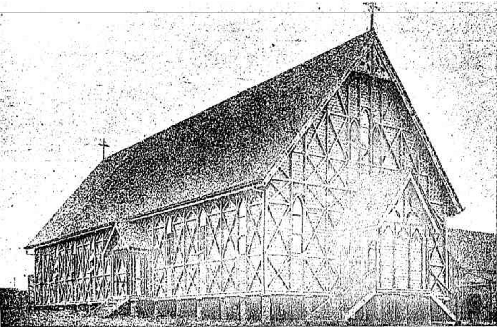 Sacred Heart Catholic Church, Mount Morgan, 1907